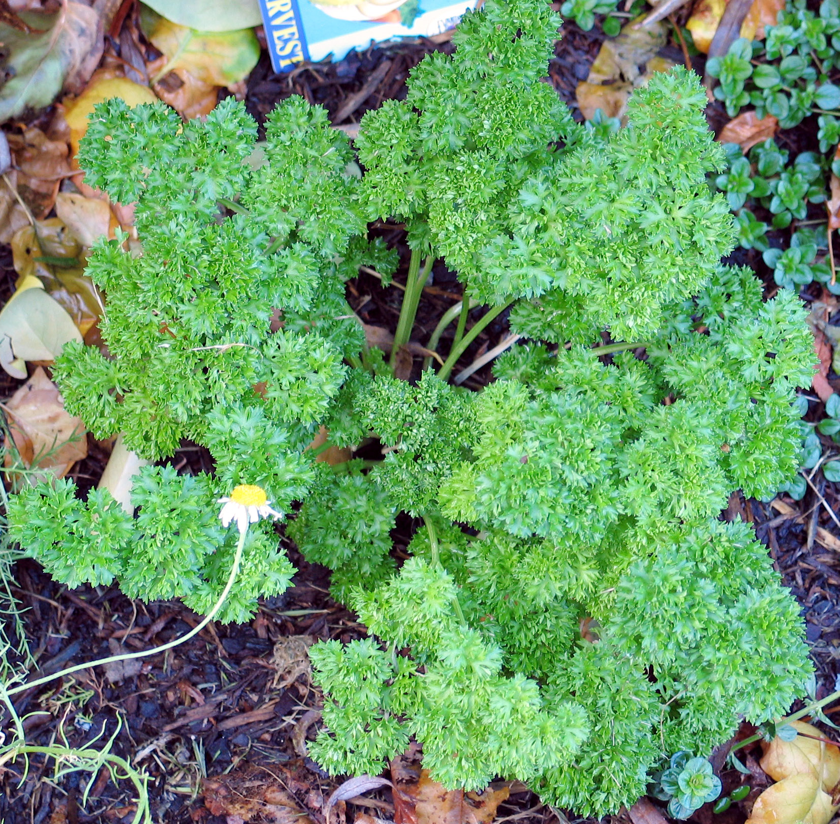 This is a curly leaved parsley plant (the common garden variety).